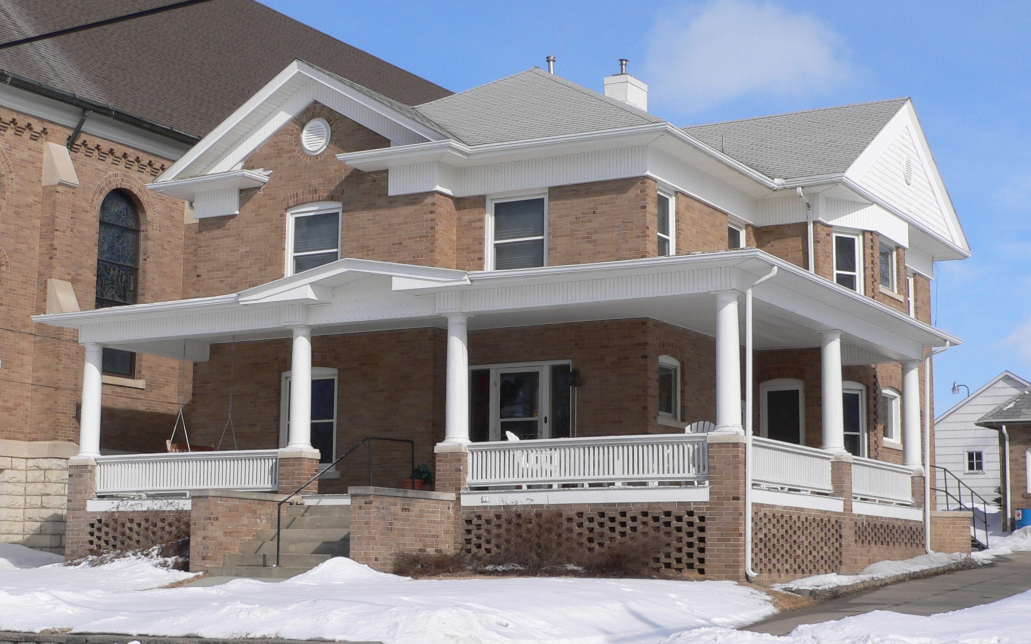 Rectory at St. Leonard's Catholic Church in Madison, Nebraska; seen from the southwest. The rectory was designed in Neoclassical Revival style, and built in 1911-12. With the church (in background) and a garage (low brown brick building just visible at right edge of picture), it is listed in the National Register of Historic Places.